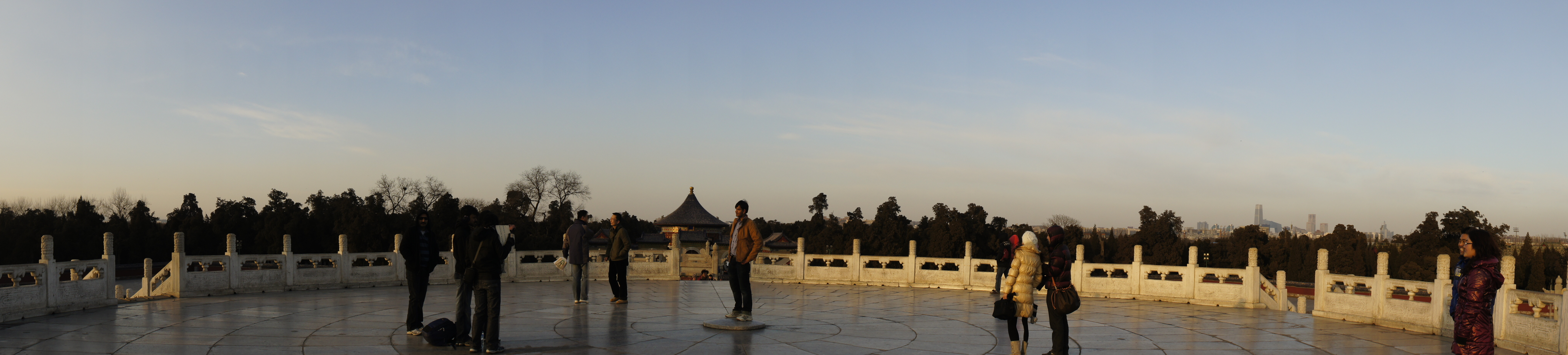 The Circular Mound Altar (圜丘坛) at the Temple of Heaven.